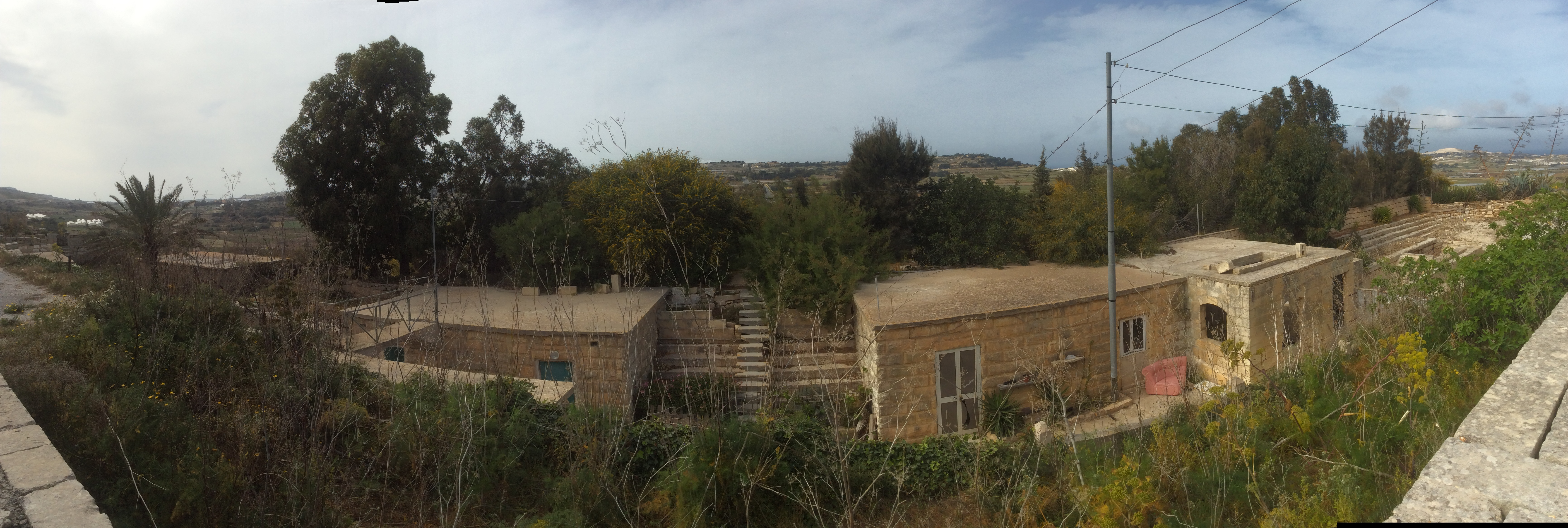 Tat-targa Battery